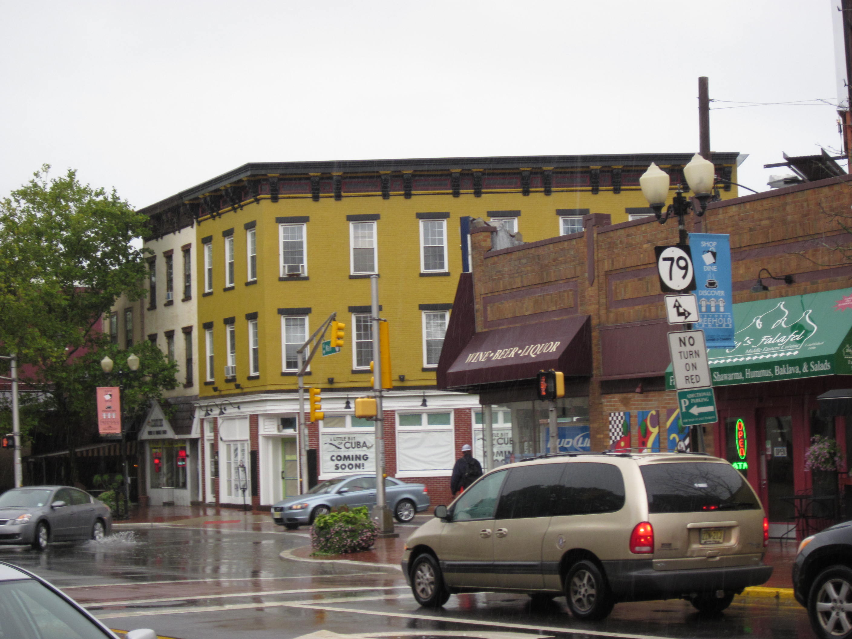 County Route 537 in Freehold Borough, New Jersey at its intersection with NJ Route 79